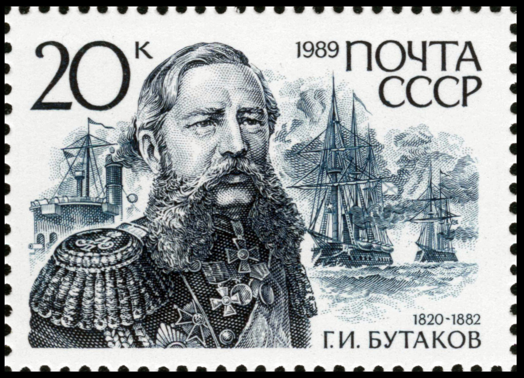 Russian Admirals. Grigory Butakov. USSR stamp from a stamp sheet of 6 USSR stamps, Russian Admirals, 1989.